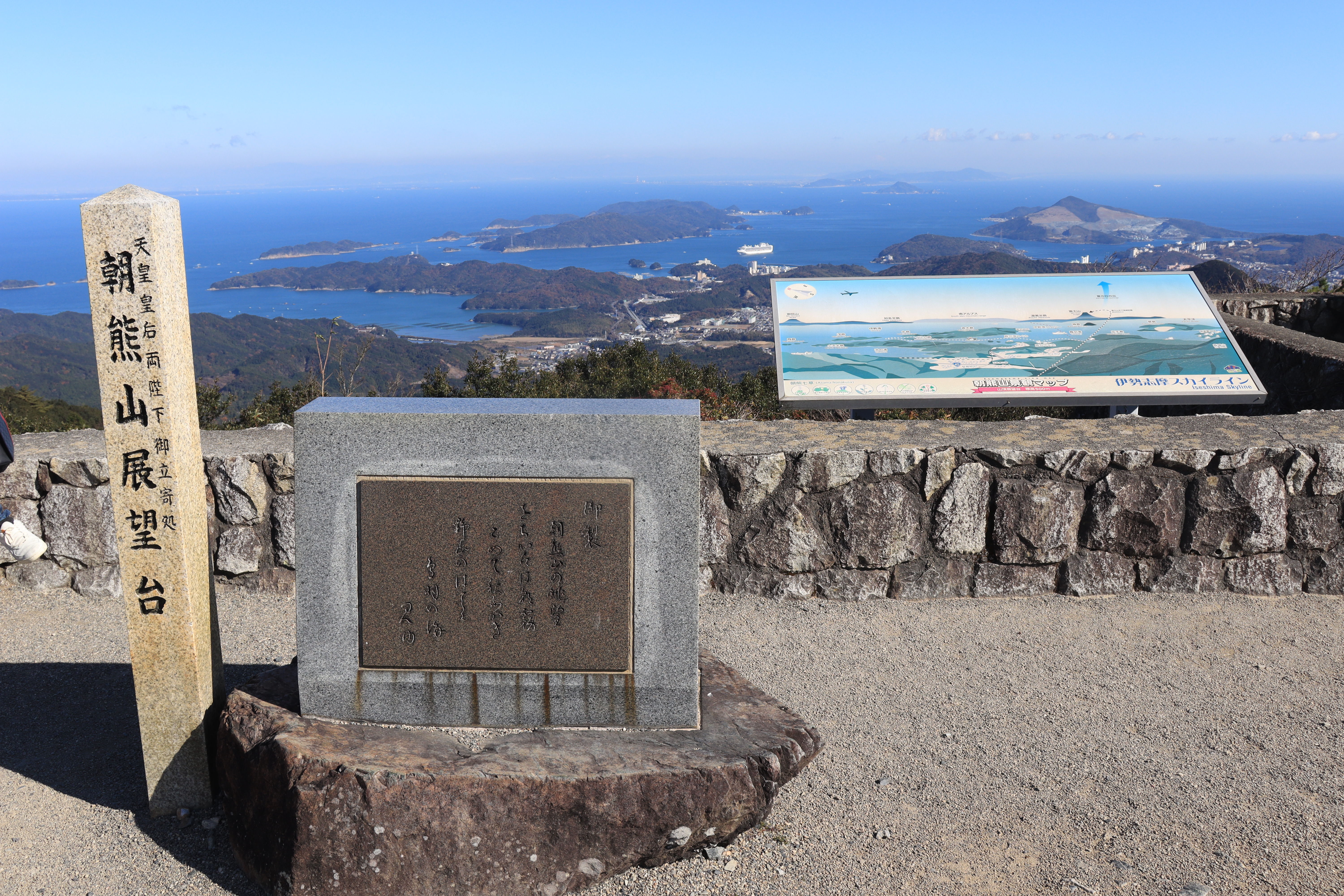 Observation deck on Mount Asama in Ise-Shima Skyline, Ise City, Mie Prefecture, Japan.